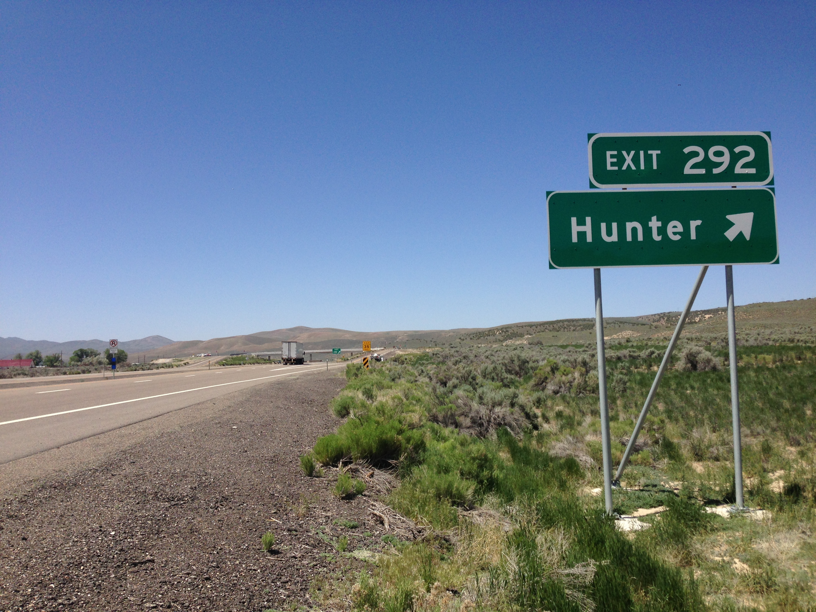 Sign for Exit 292 along westbound Interstate 80 in Hunter, Nevada